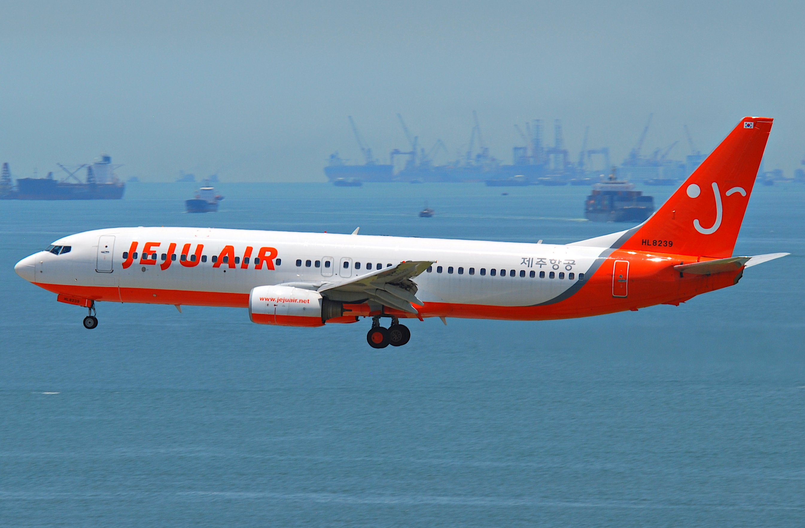 This Boeing 737-82R took its first flight on May 4, 2001...(c/n 29344/ 849) 21/05/2001 Pegasus Airlines TC-APU 17/06/2011 Jeju Air HL8239